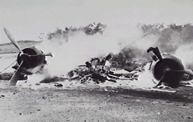 AWM caption : COOMALIE, NT. 1942. BEAUFIGHTER AIRCRAFT OF NO. 31 SQUADRON RAAF ON FIRE AFTER A JAPANESE AIR RAID.